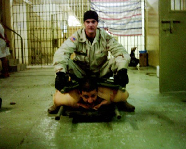 Sgt. Ivan "Chip" Frederick, who was the senior enlisted soldier at Abu Ghraib in the fall of 2003, sitting on an inmate. He was sentenced to eight years in prison. U.S. Army / Criminal Investigation Command (CID). Seized by the U.S. Government.